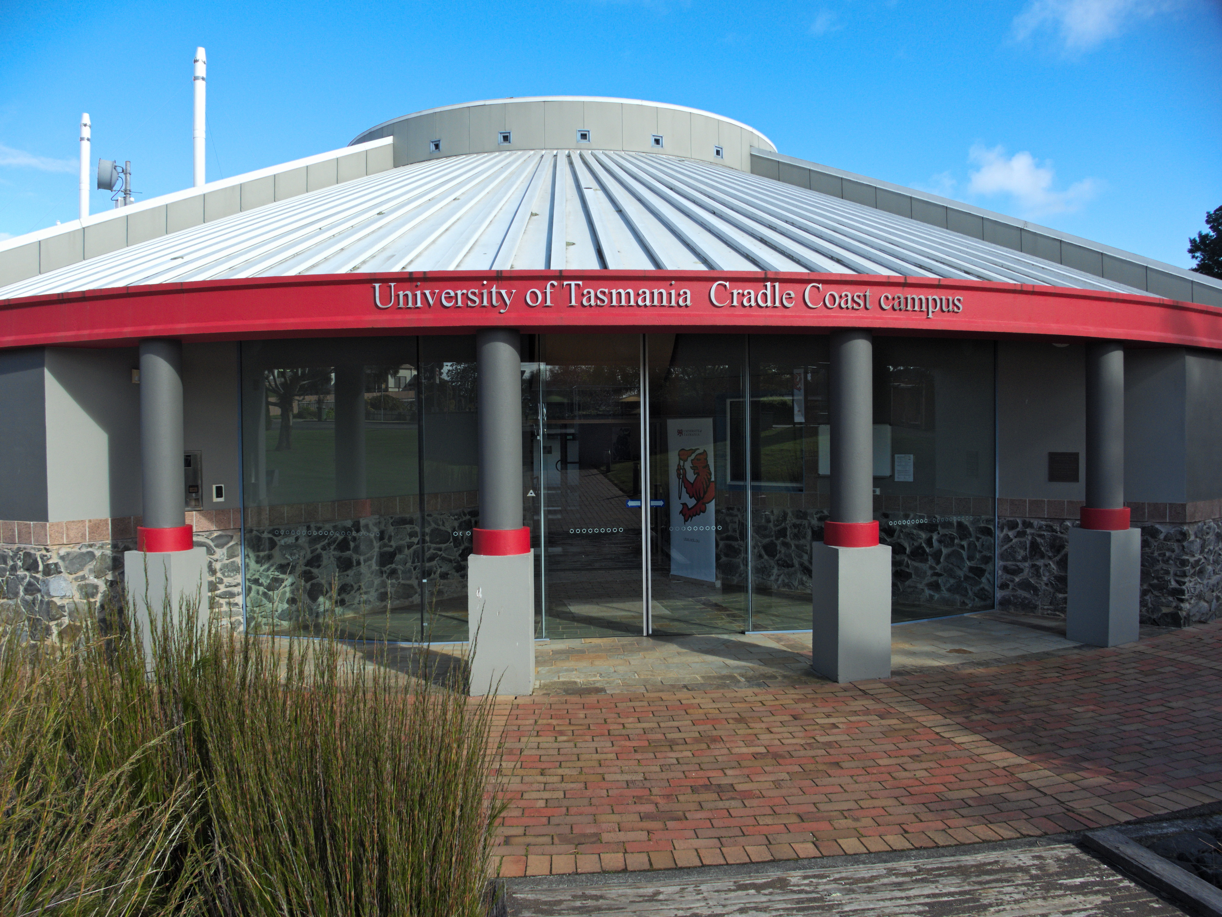 An entrance to the University of Tasmania Cradle Coast campus at 16-20 Mooreville Road, Burnie.